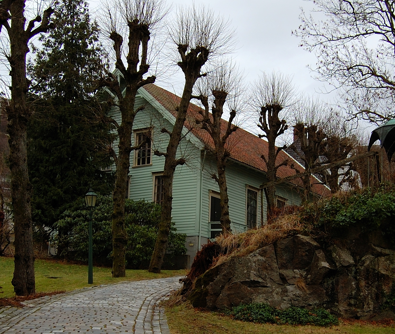 Gamle Bergen - open air museum in Bergen, Norway.